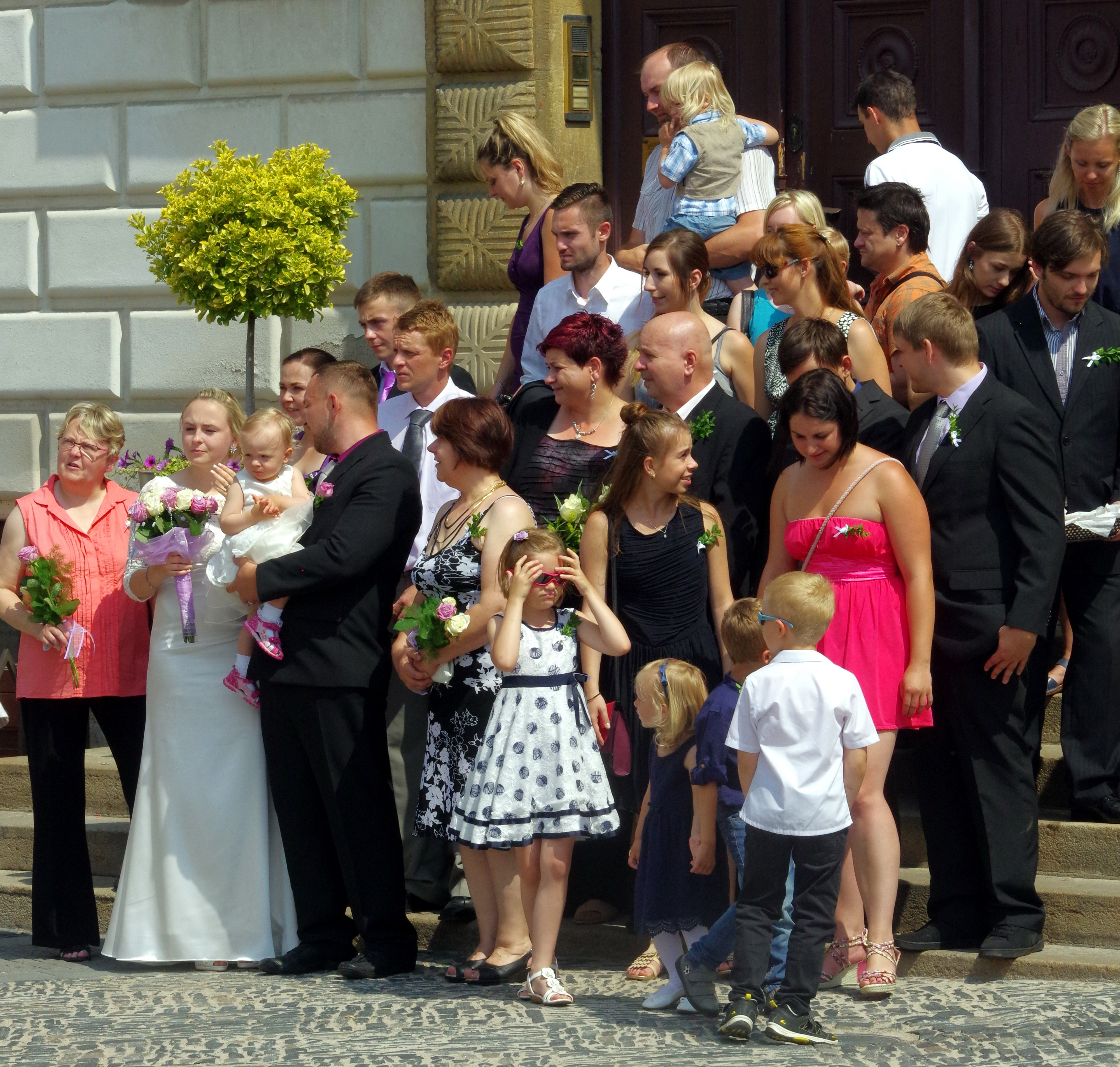 25.6.16 Kolin